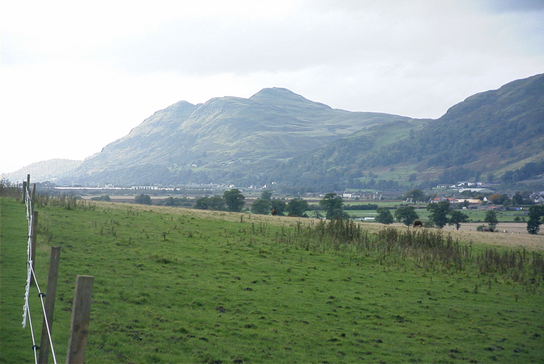 Photograph by Alan Campbell.